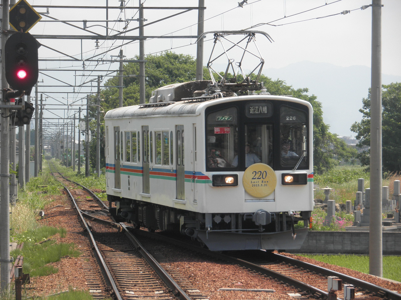 Ohmi Railway 220 series EMU car 226 on a final run on 31 May 2015